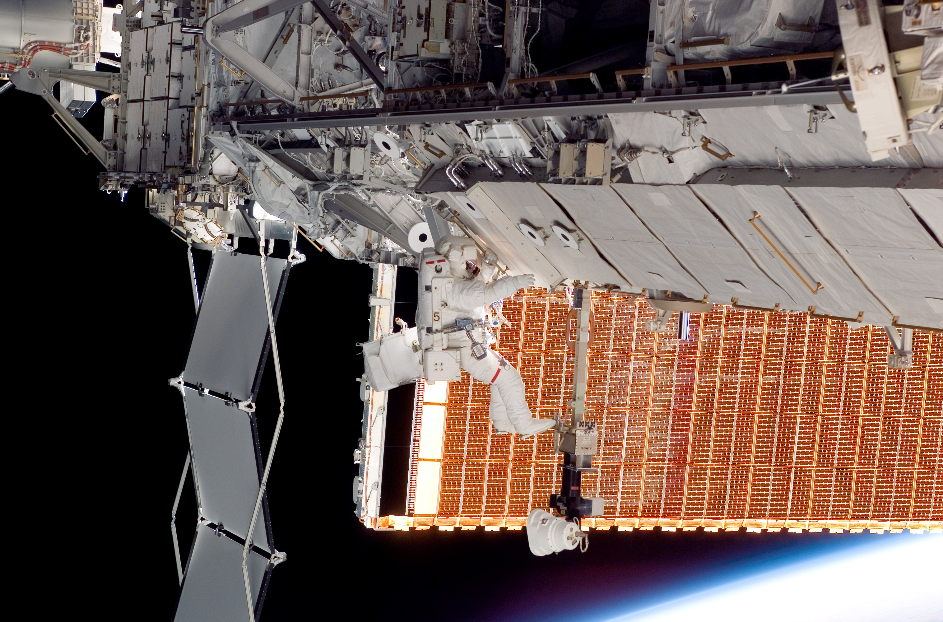 Astronaut Patrick Forrester participate in the mission's second planned session of extravehicular activity, as construction resumes on the International Space Station